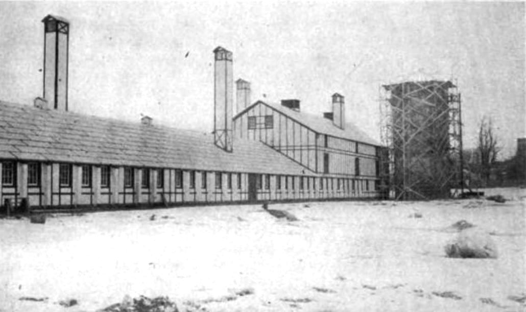 This image depicts a new stable with a complete ventilating system, at Briarcliff Farms in Pine Plains, New York.